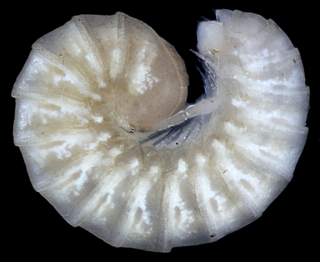 The tiny (2.9-3.2 mm) parthenogenetic Amphitomeus attemsi is a common species in greenhouses.